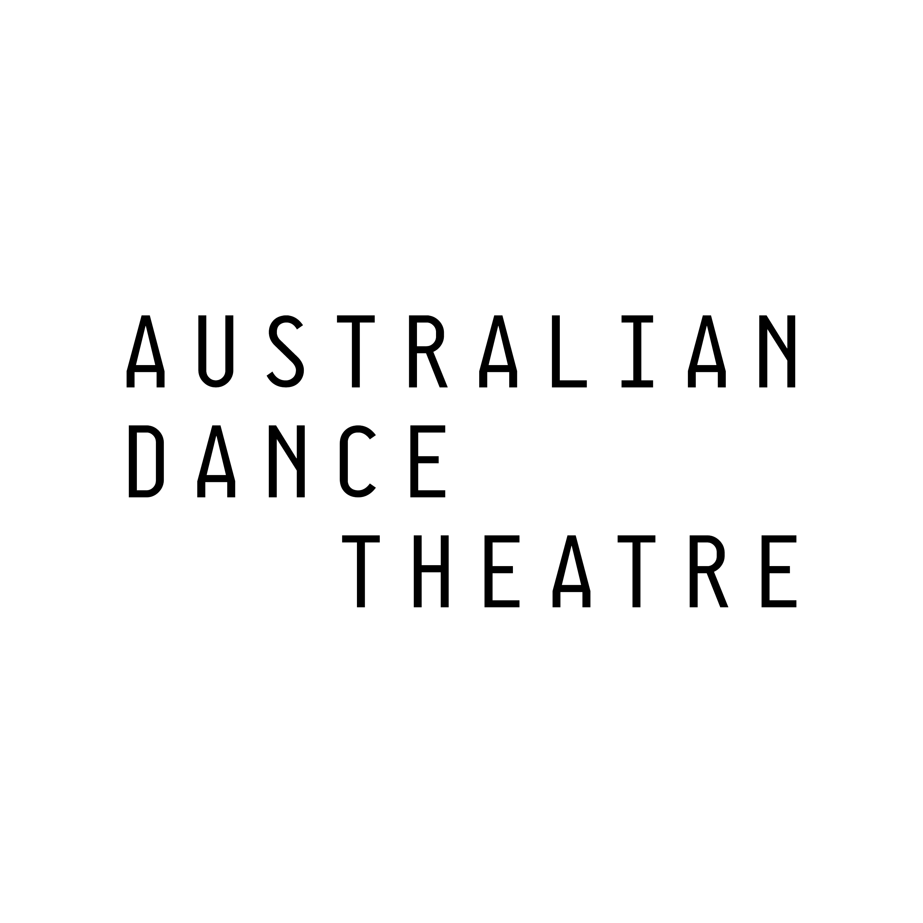 Australian Dance Theatre's Logo